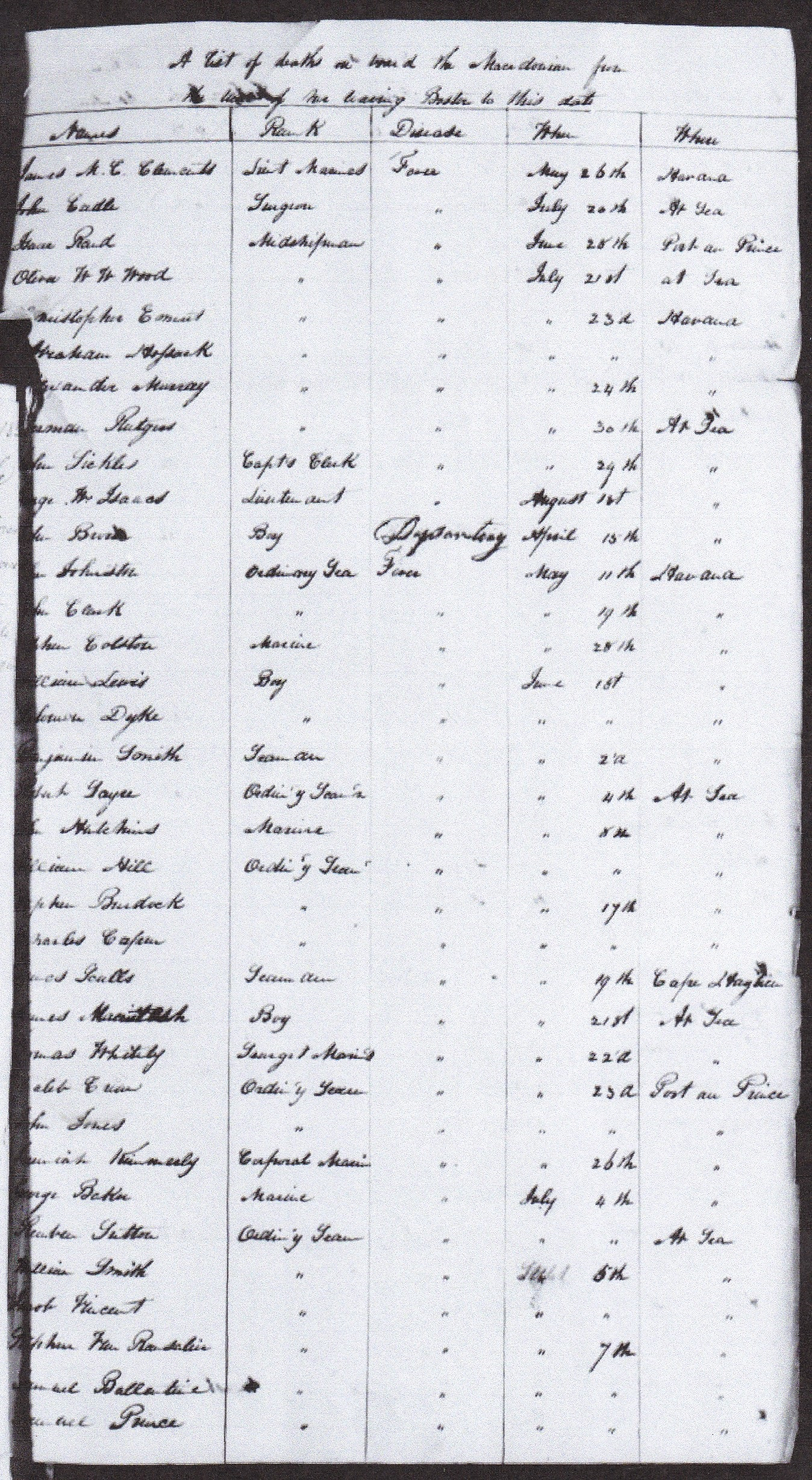 Commodore James Biddle to Sec Nav dtd 3 August 1822 reporting 76 deaths aboard the USS Macedonian of yellow fever. Enclosure first page list of dead.